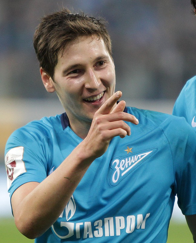 Daler Kuzyayev